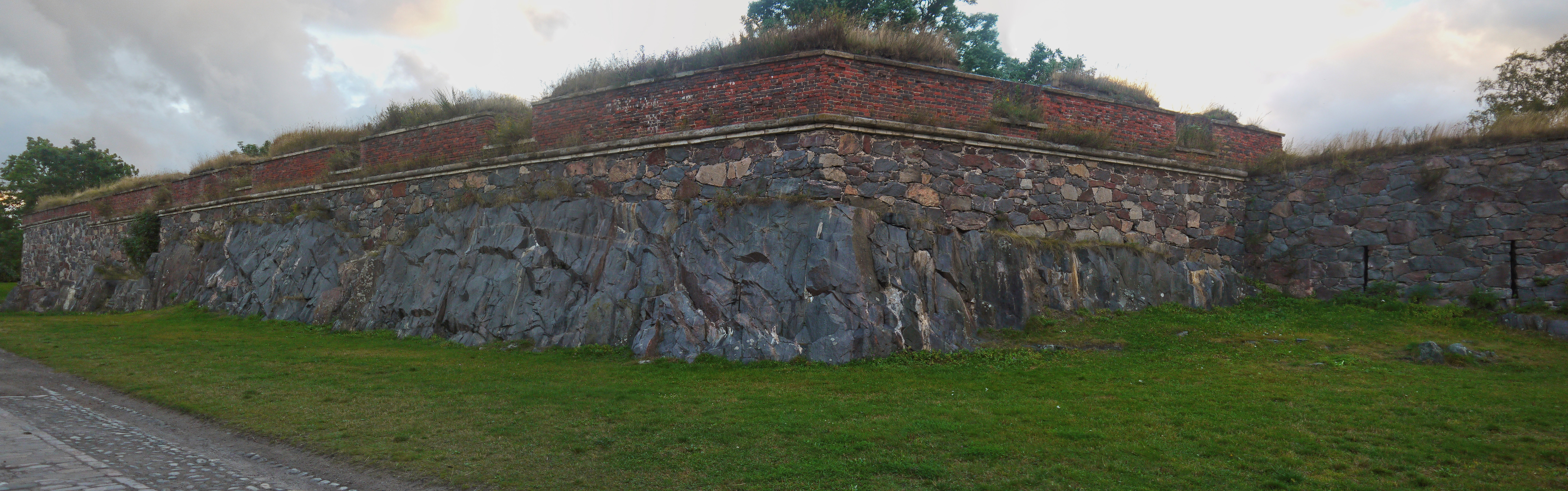 Bastion Kunnia.